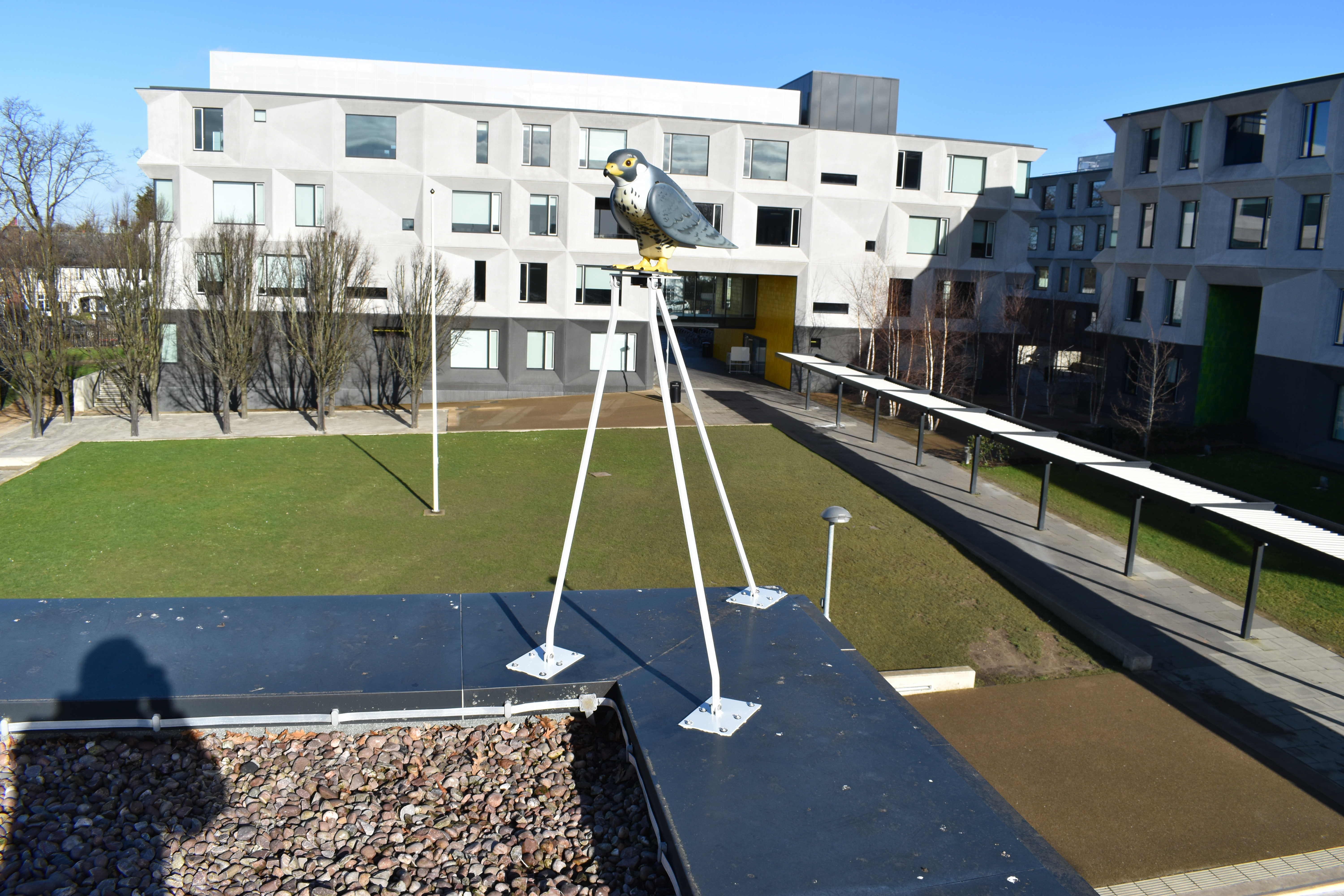 R:Falcon Bird Control At Cavendish School, UK.